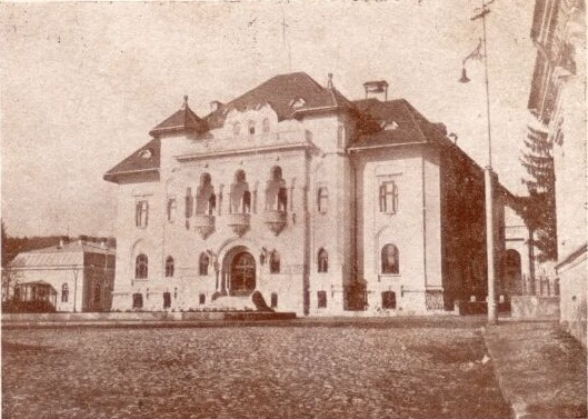 Câmpulung City Hall, the former Muscel County Hall during the interbelic period. The historical building was built in 1934.